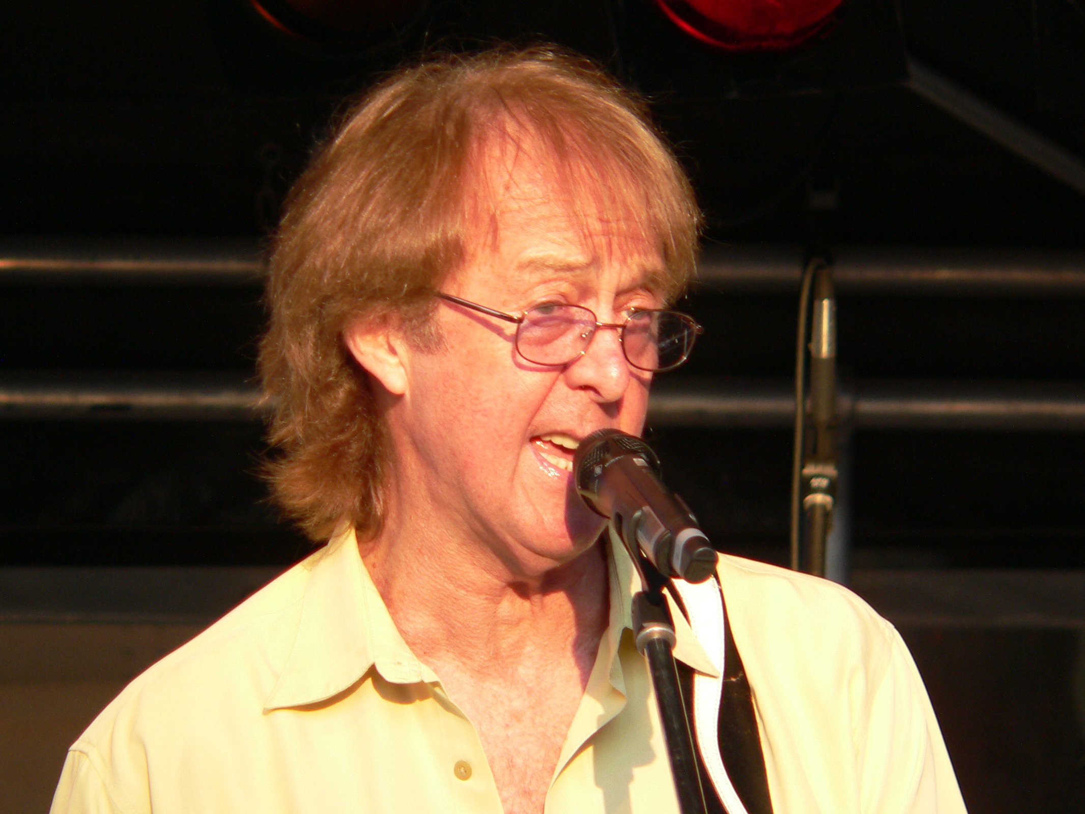 Spencer Davis at a concert on 8. July 2006 in Neckarsulm